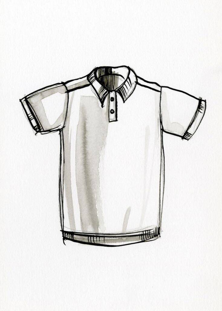 The description of the concept in this drawing is: Pullover shirts with short or long sleeves and a turnover collar or a round banded neck. Usually made of a soft absorbent fabric, such as knitted cotton. (AAT)